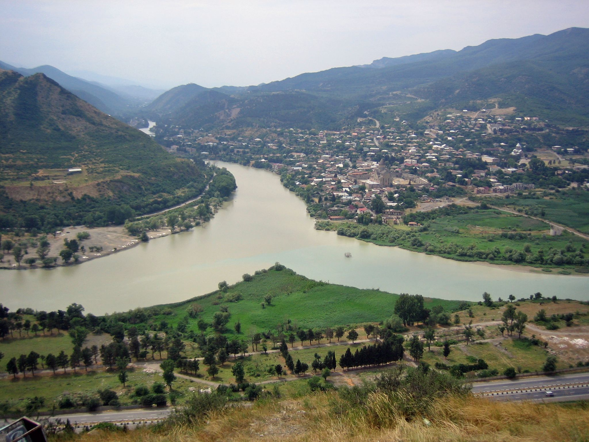 View from Dshwari Church to the old capital of Georgia Mtskheta. Confluence of Mtkwari and Aragwi. M27 Highway in front.